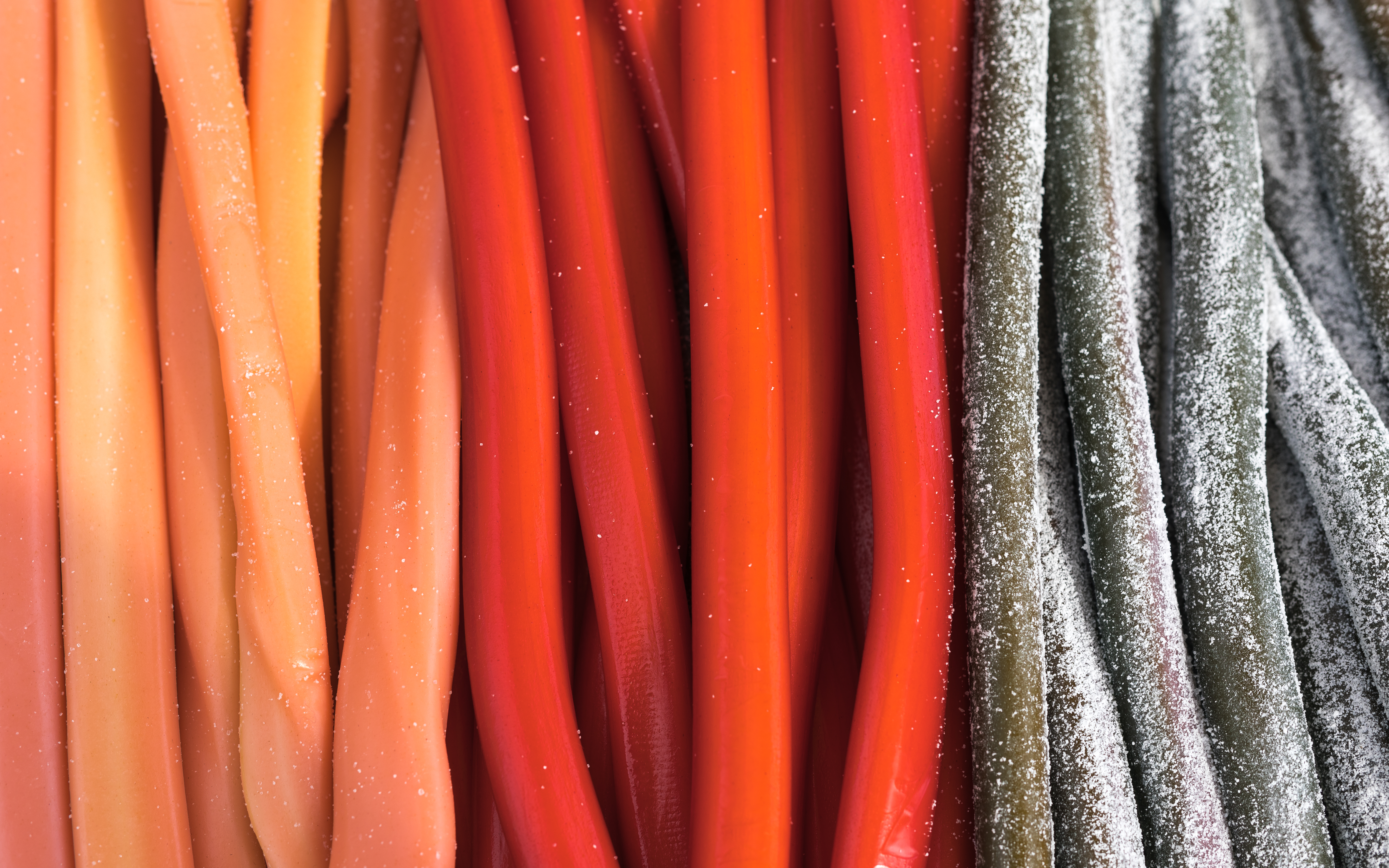 Licorice at a stand on Strömkajen, Stockholm